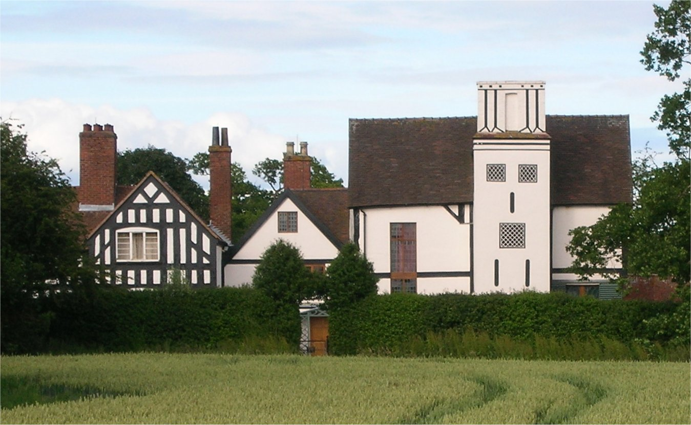 Boscobel House on the Shropshire/Staffordshire border, near Wolverhampton, England. Photographed by me 23 June 2007. Oosoom